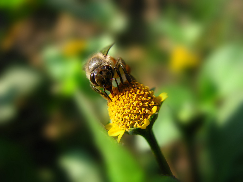 Honey Bee busy at Nectar.